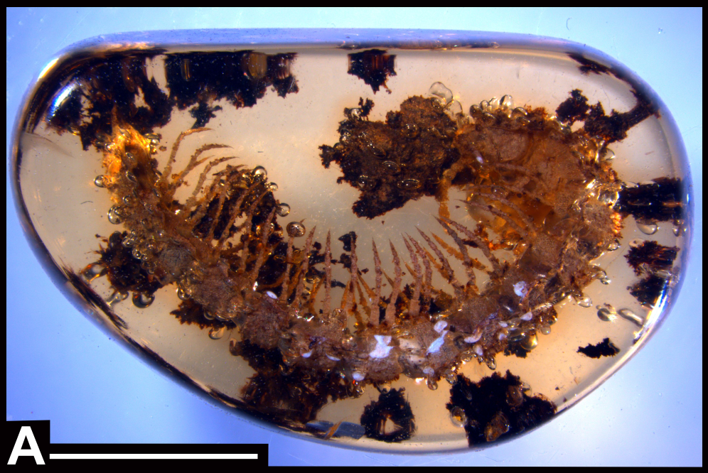 Anbarrhacus adamantis holotype. Scale bar 5 mm.